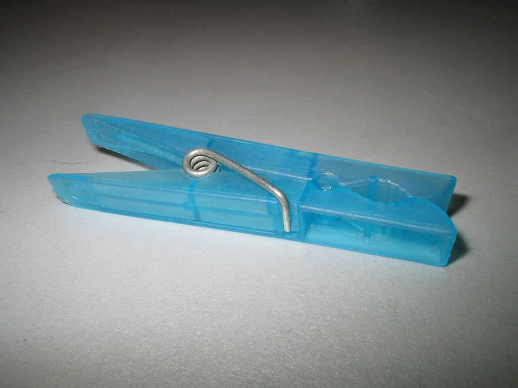 Blue clothes peg